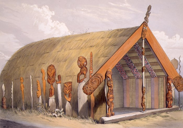 Maketu house at Otawhao, built by Puatia, to commemorate the taking of Maketu. [1844]. Shows a carved meeting house, called a wharepuni or wharenui , Māori, New Zealand, 1844